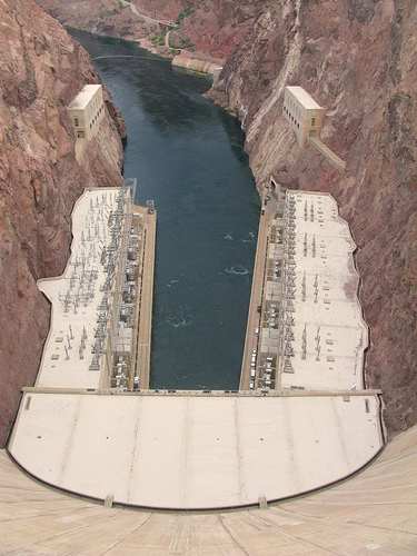 Hoover Dam